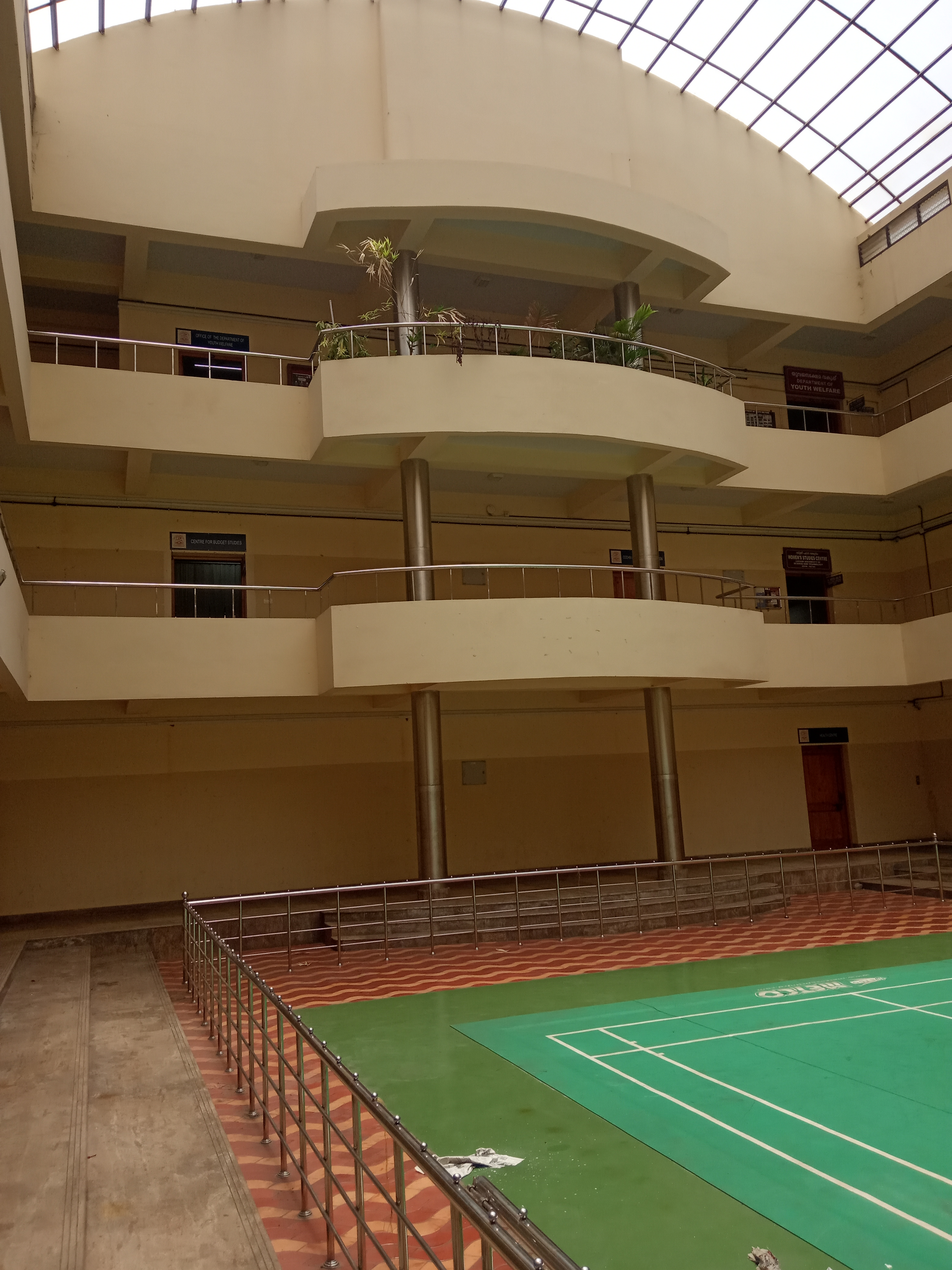 a badminton court containing amenities centre